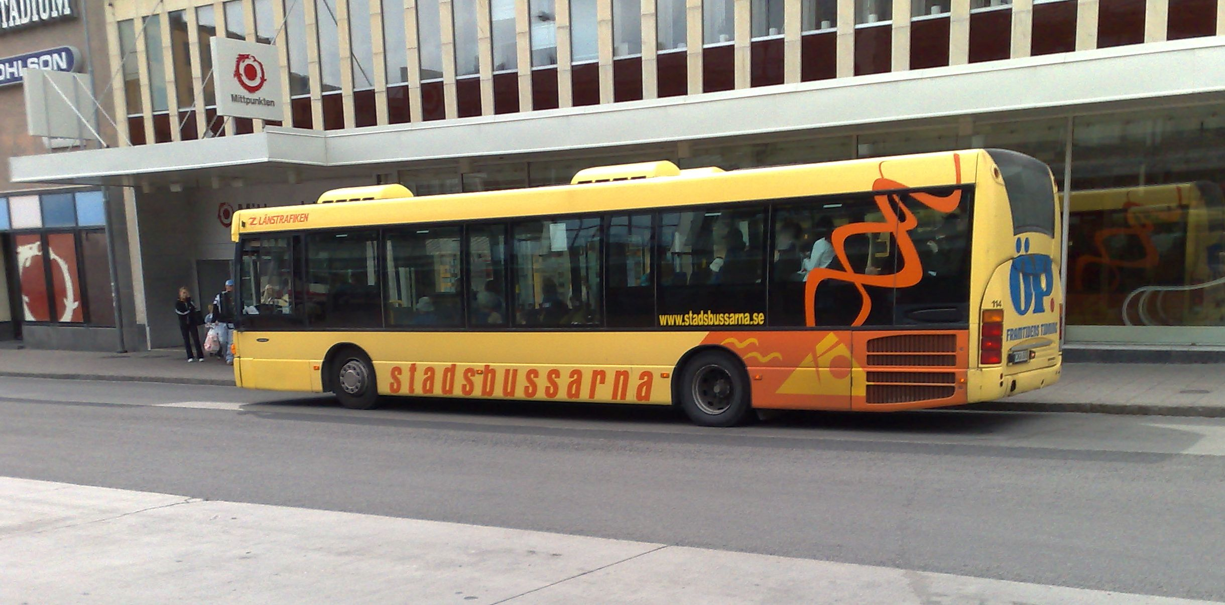 Scania Omni series bus. OmniLine or OmniLink.